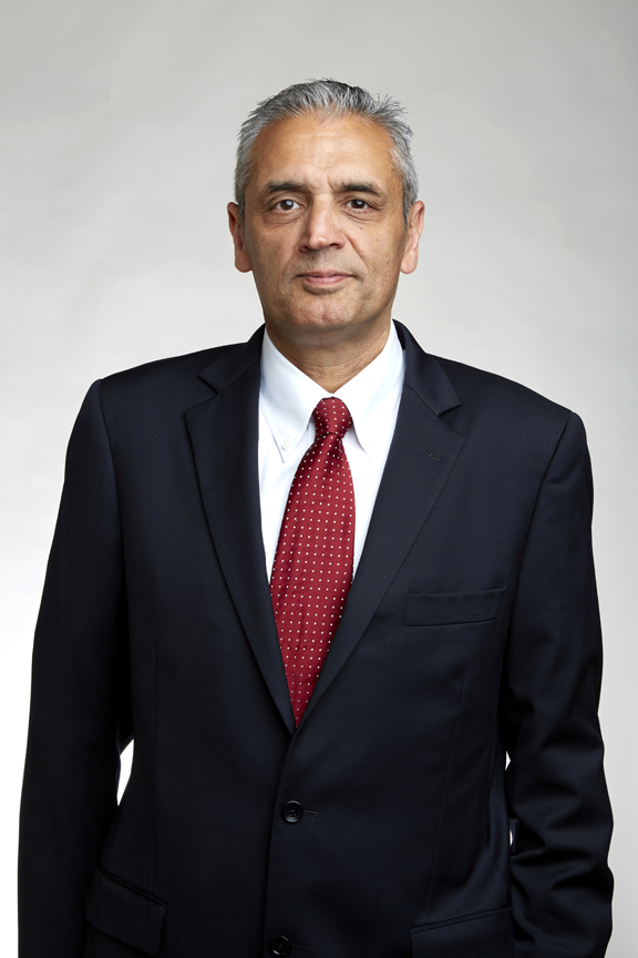 Harren Jhoti is a structural biologist whose main interest has been rational drug design. He is President & Chief Executive Officer of Astex Pharmaceuticals in Cambridge, a biotechnology company he co-founded with Tom Blundell and Chris Abell in 1999 Attribution: The Royal Society